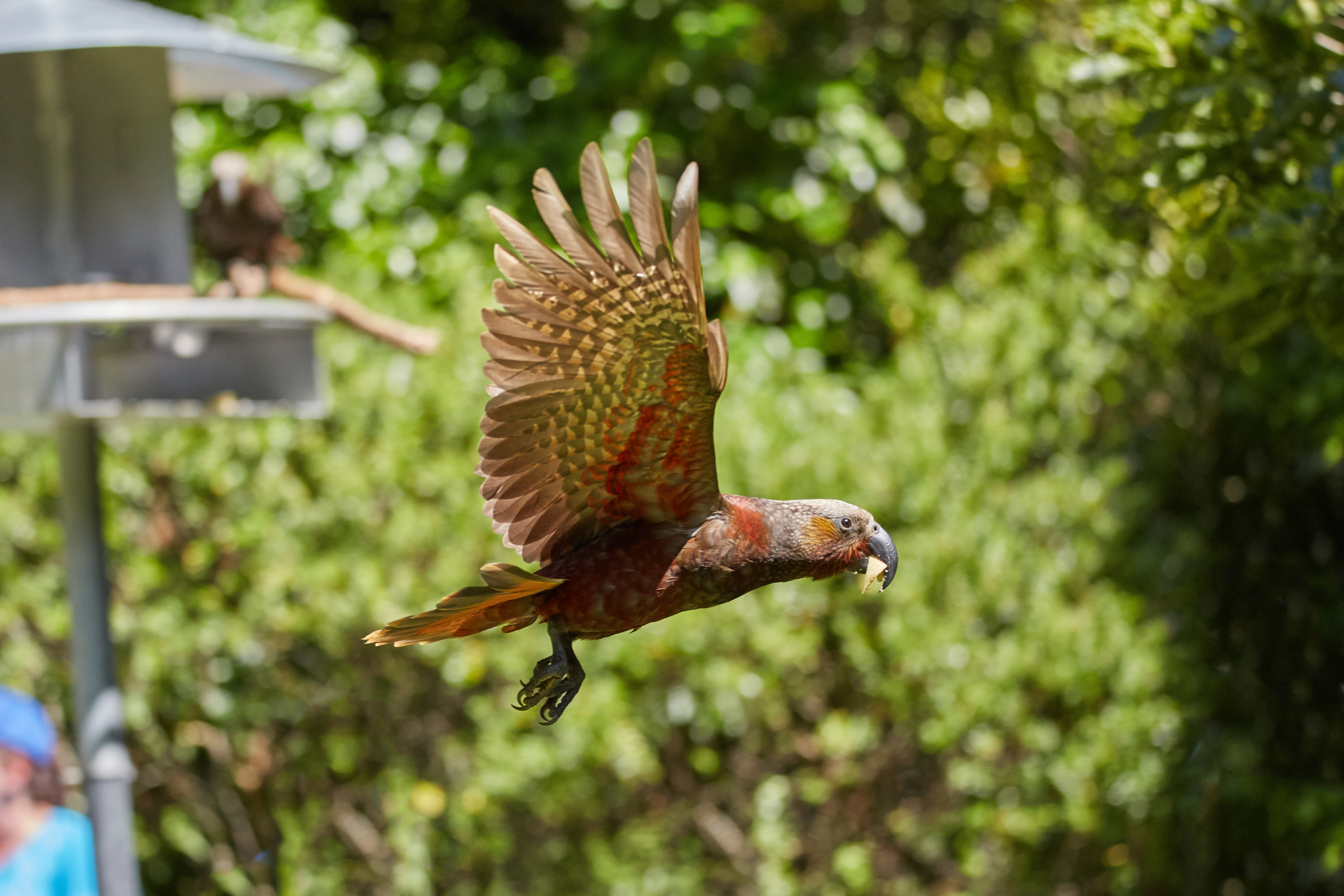 North Island kaka in flight, showing red plumage on underside of wing.